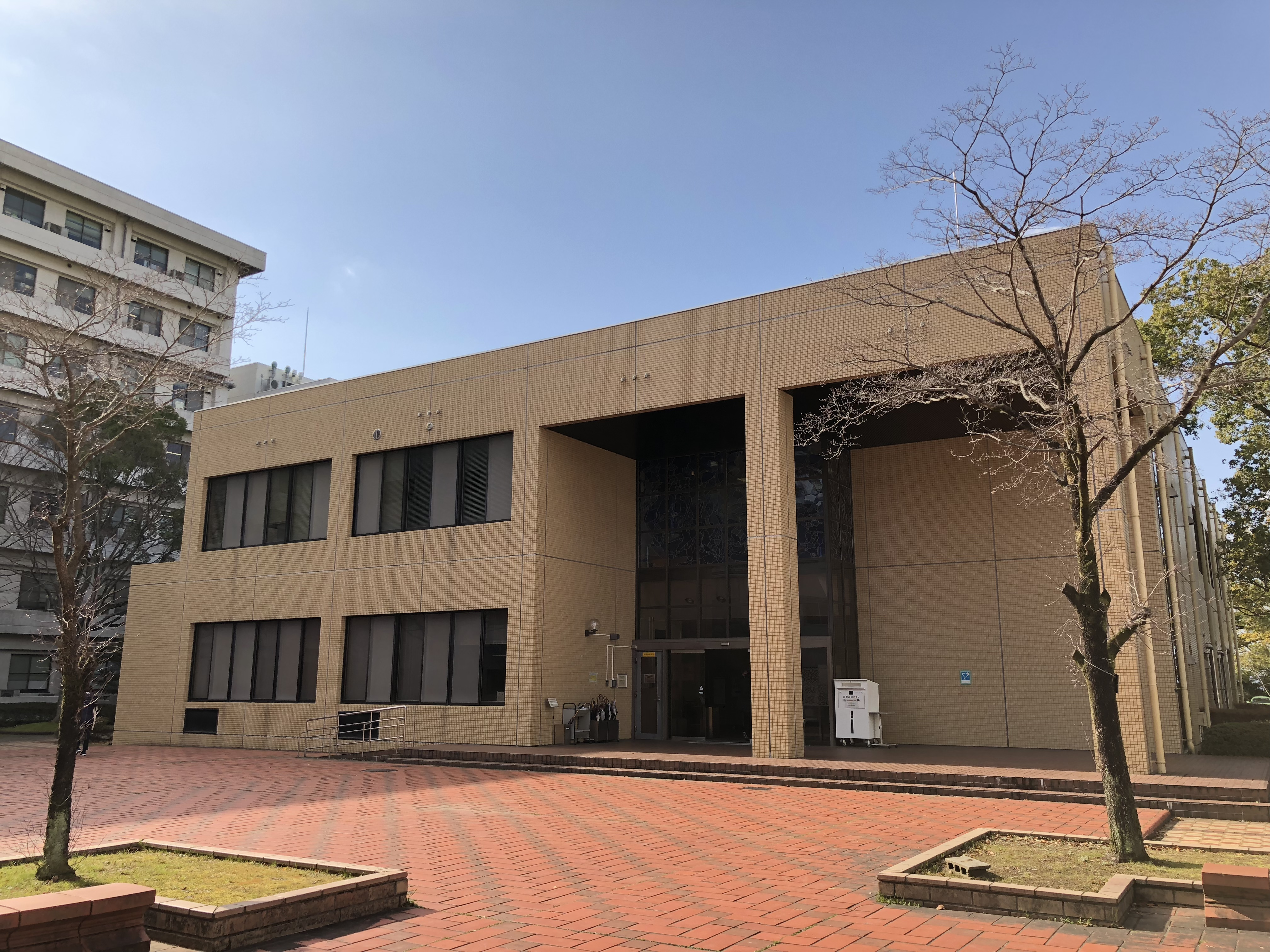 Faculty of Medicine Branch, Kagawa University Library.